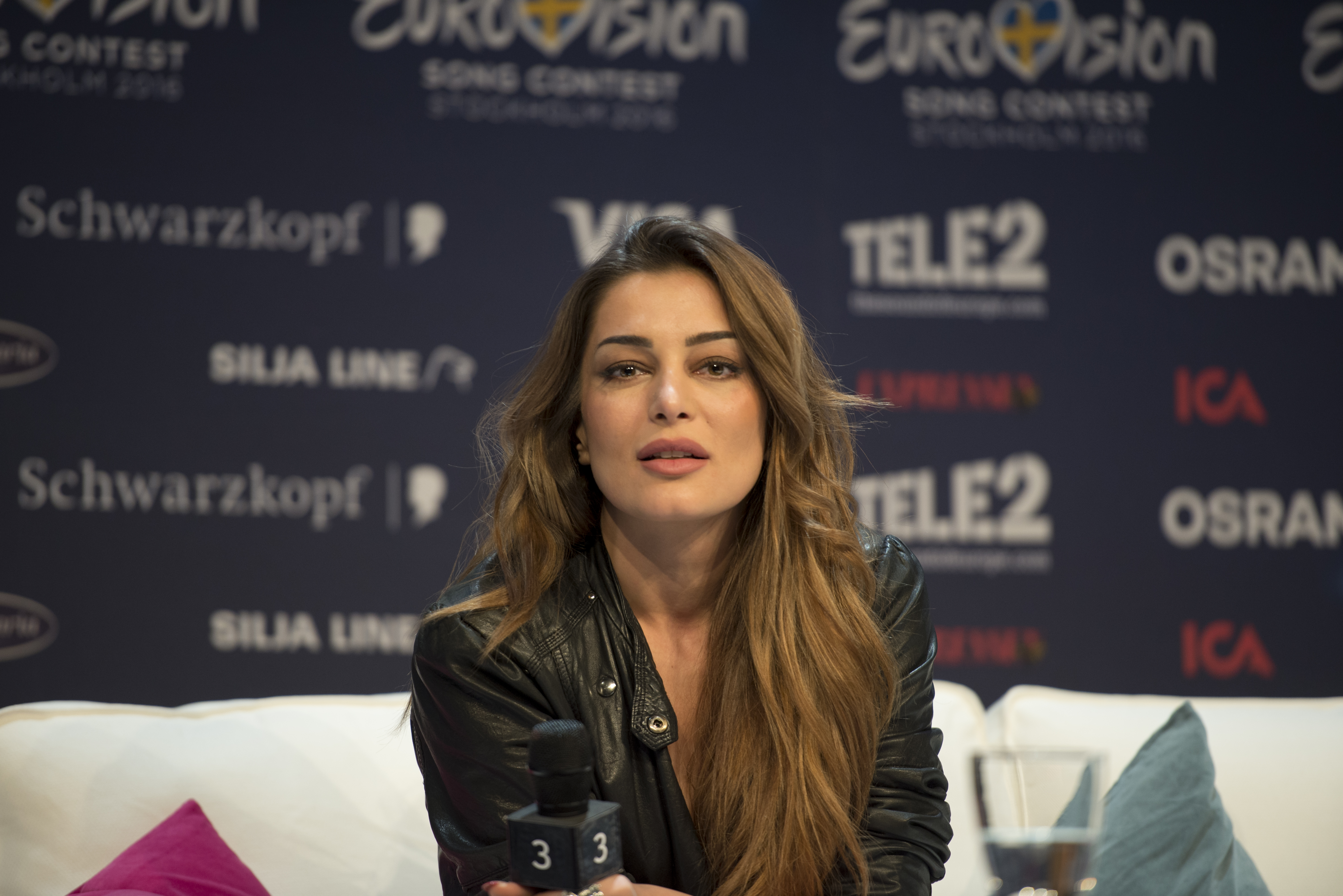 Iveta Mukuchyan at a Meet & Greet during the Eurovision Song Contest 2016 Stockholm. (Help translate this text)